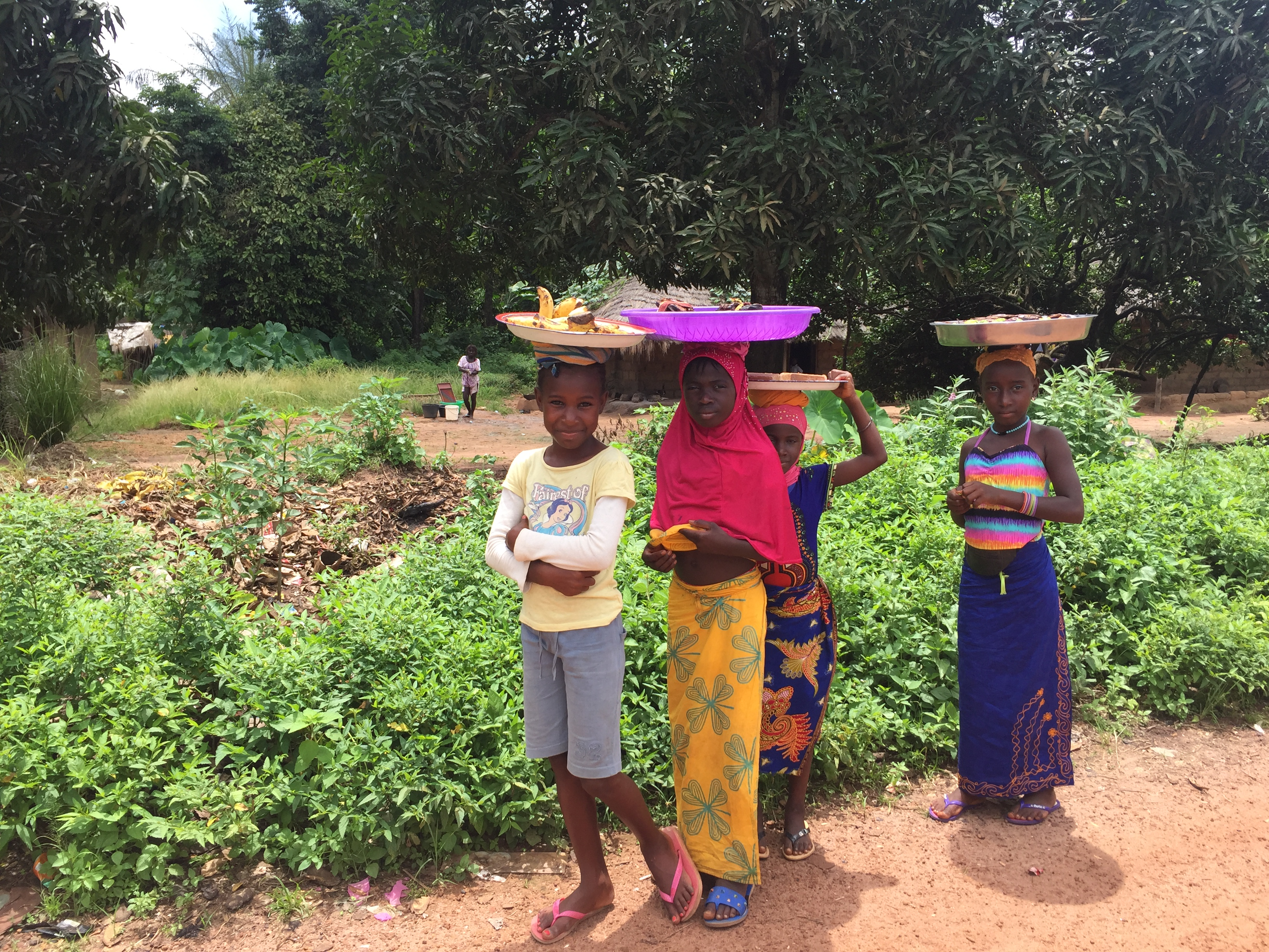 Girls selling fruits on the road. This is an image of "African people at work" from Guinea-Bissau